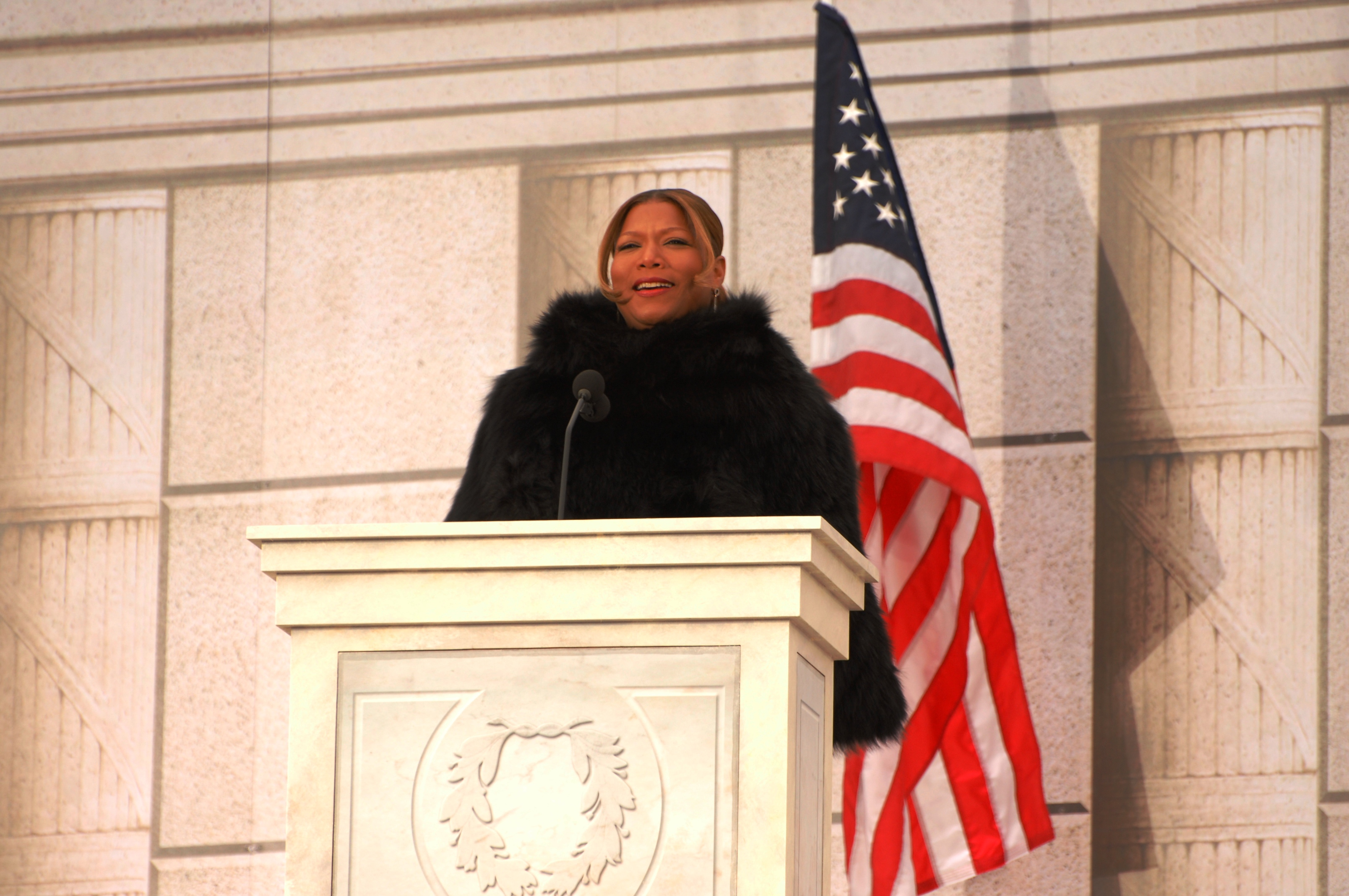 Actress Queen Latifah reads historical passages at the Lincoln Memorial on the National Mall in Washington, D.C., Jan. 18, 2009, during the inaugural opening ceremonies.